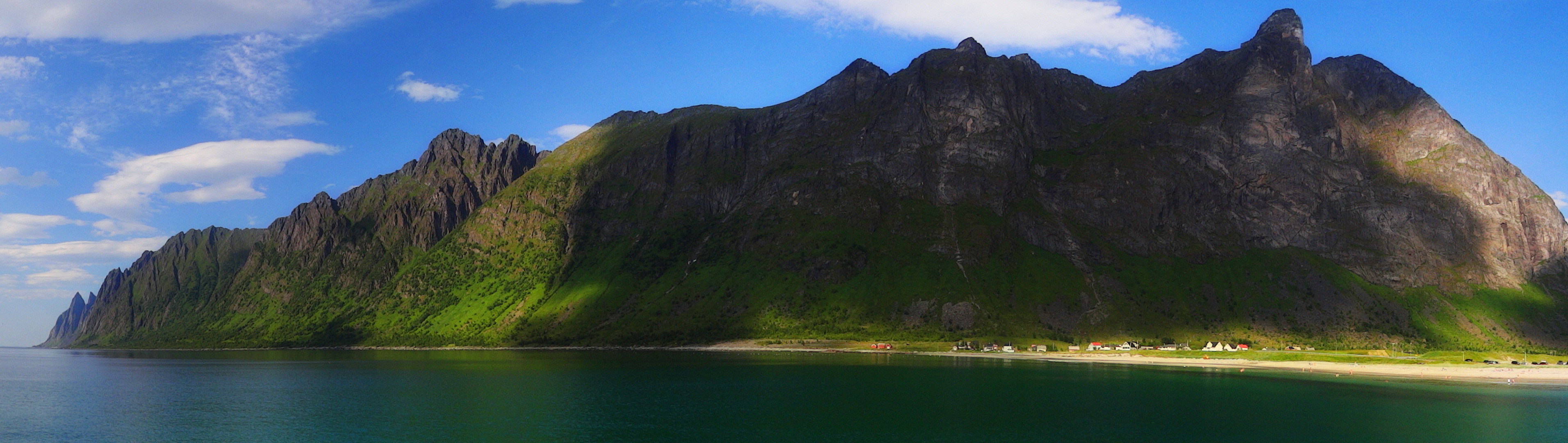 The Ersfjorden, all the way from Oksneset in the northwest to Ersfjord village in the southeast, on a particularly warm and sunny day in July 2011.